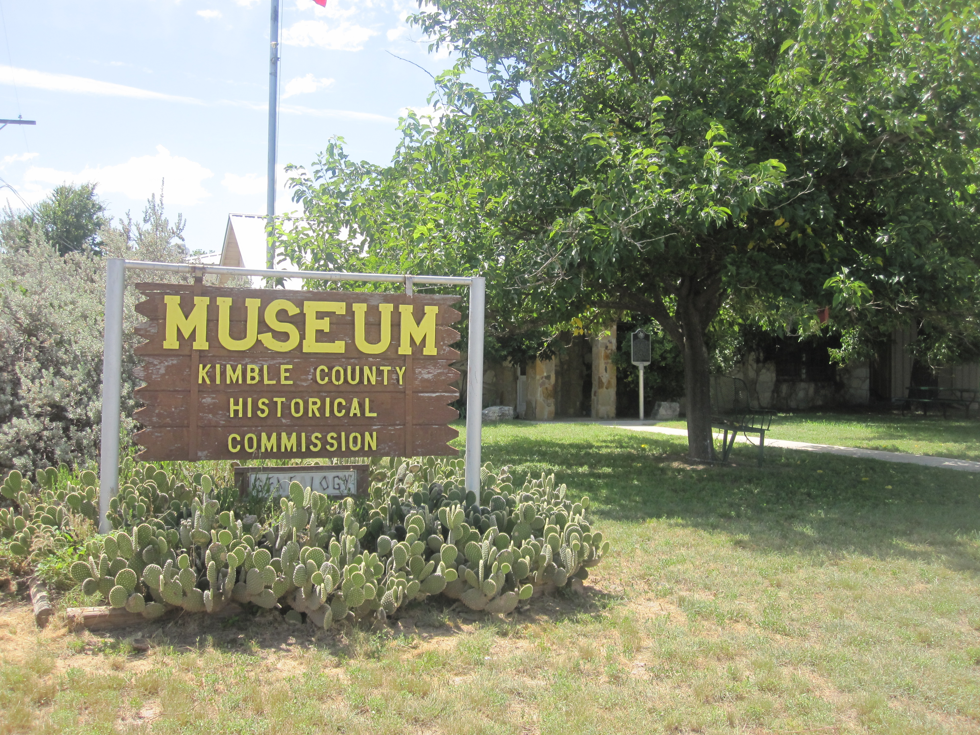 I took photo with Canon camera in Junction, TX.